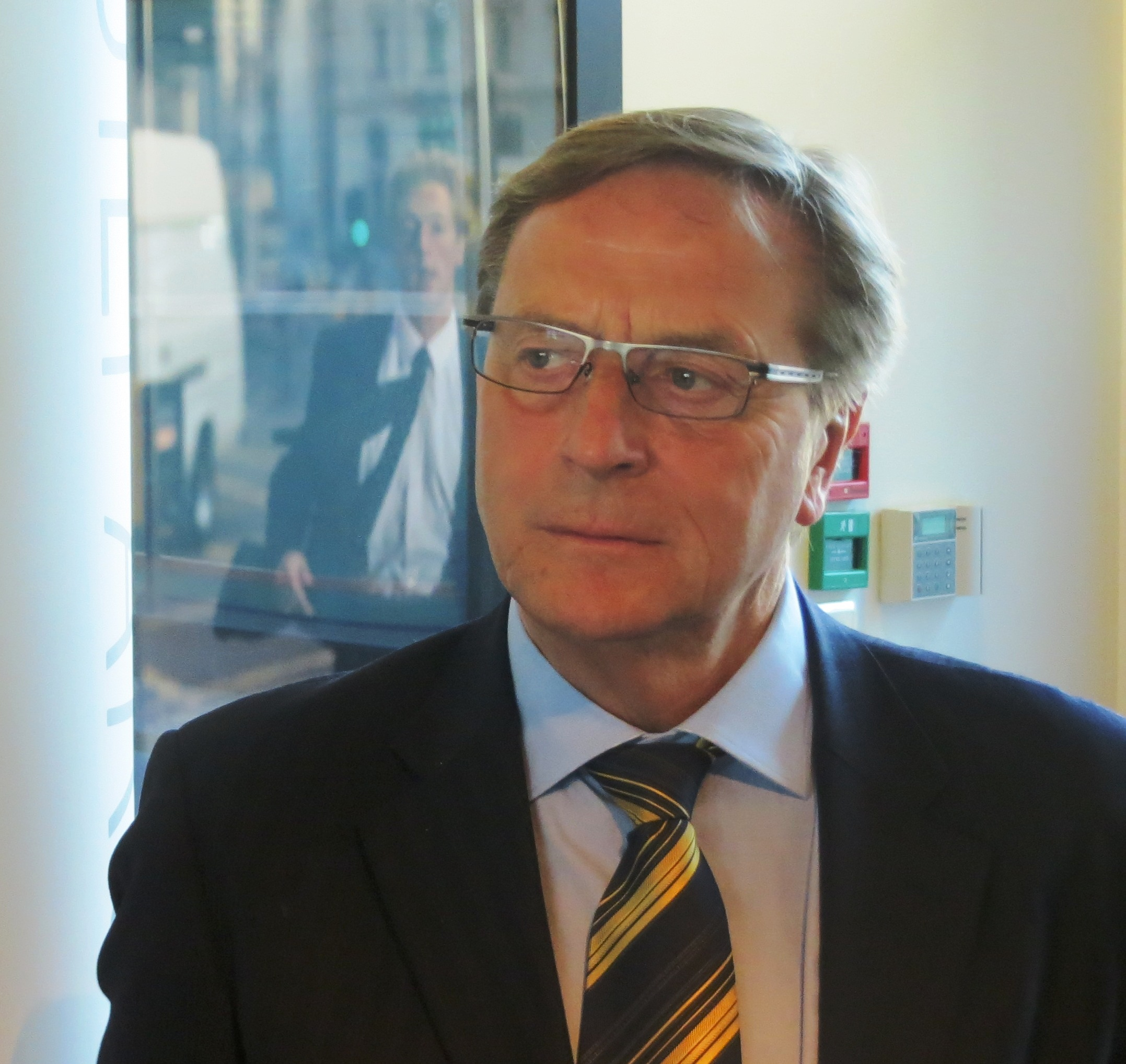 Image of president of the board of Telenor, mr Svein Aaser